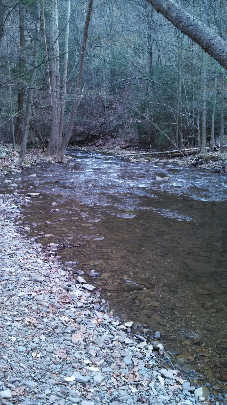 River running through the park